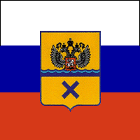 Flag of Orenburg, Orenburg oblast, Russia